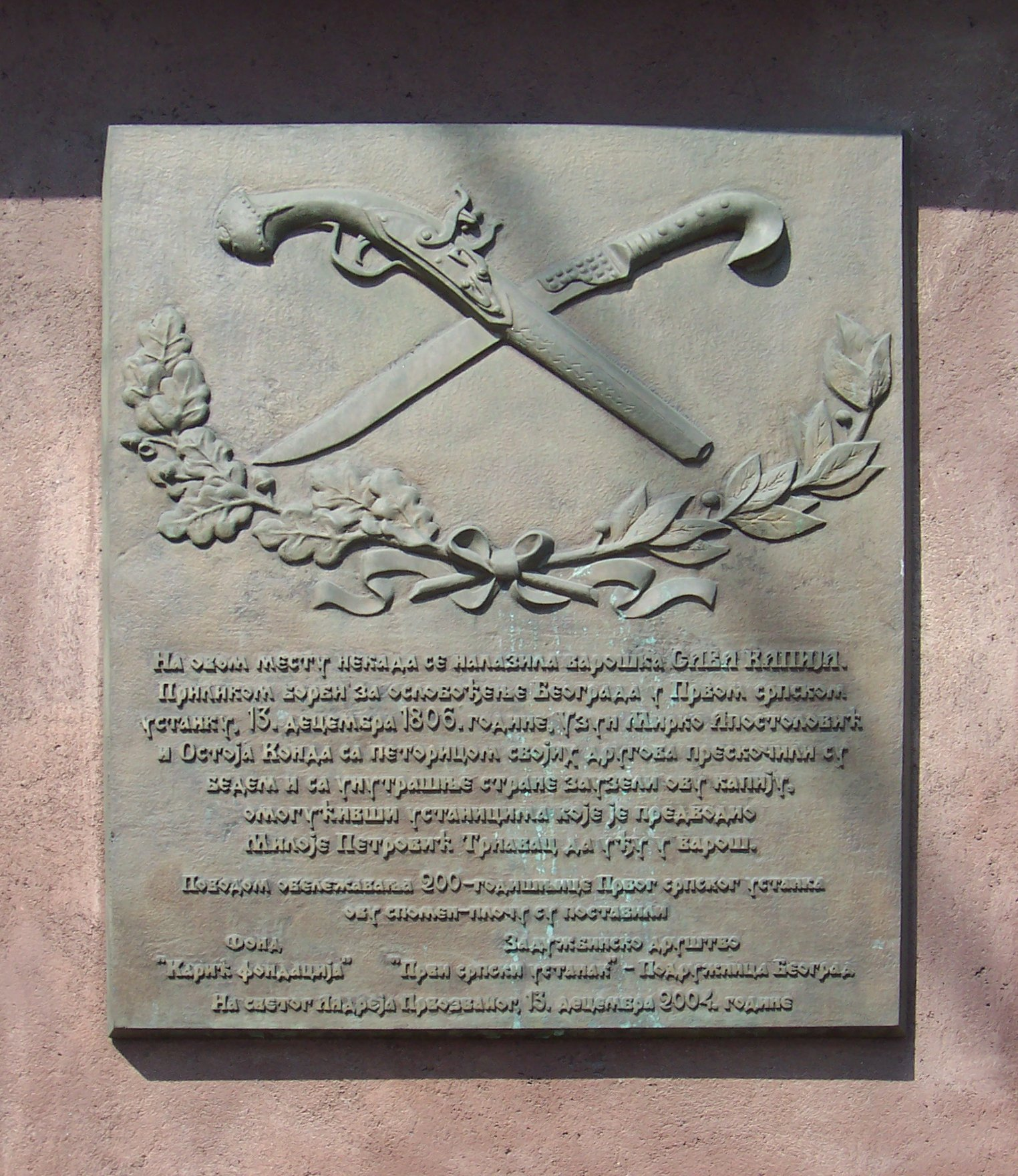 Plaque which marks the place of the Sava Gate in Belgrade. Perspective corrected.